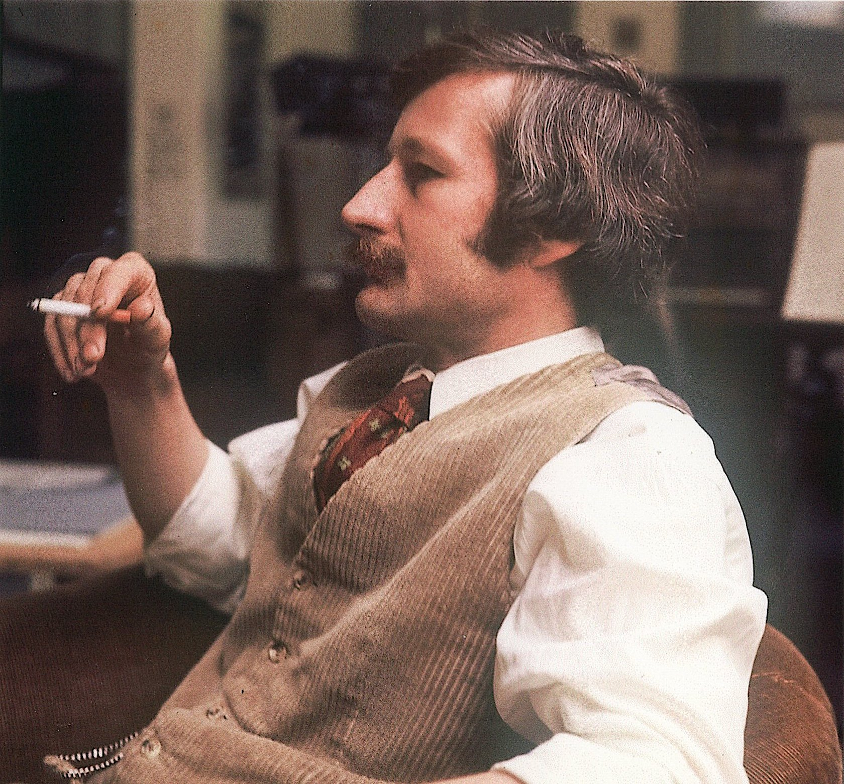 Friedrich Meckseper 1969 in Worpswede